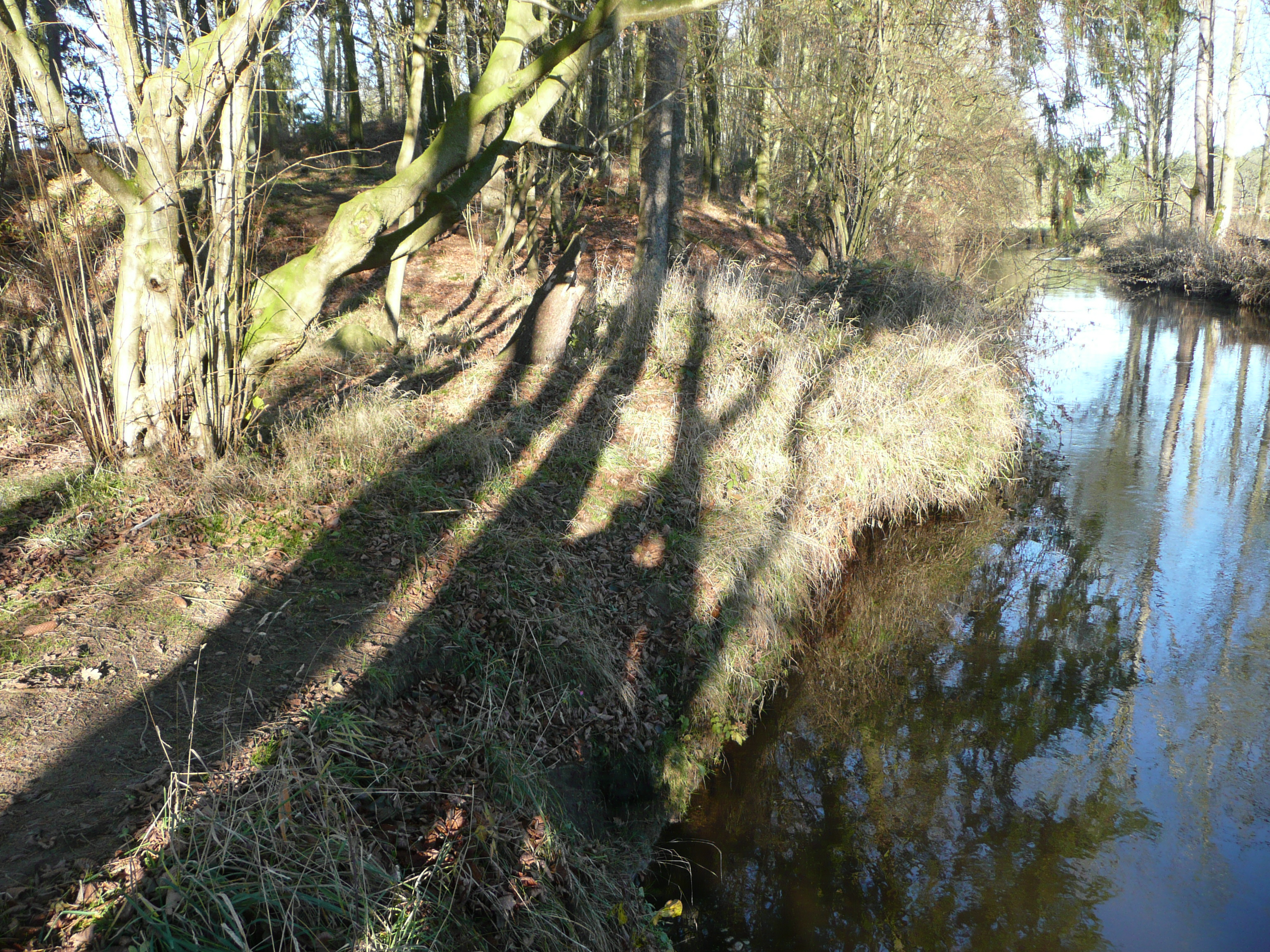 Remnants of the Huenenburg and river Boehme near Bomlitz, northern Germany